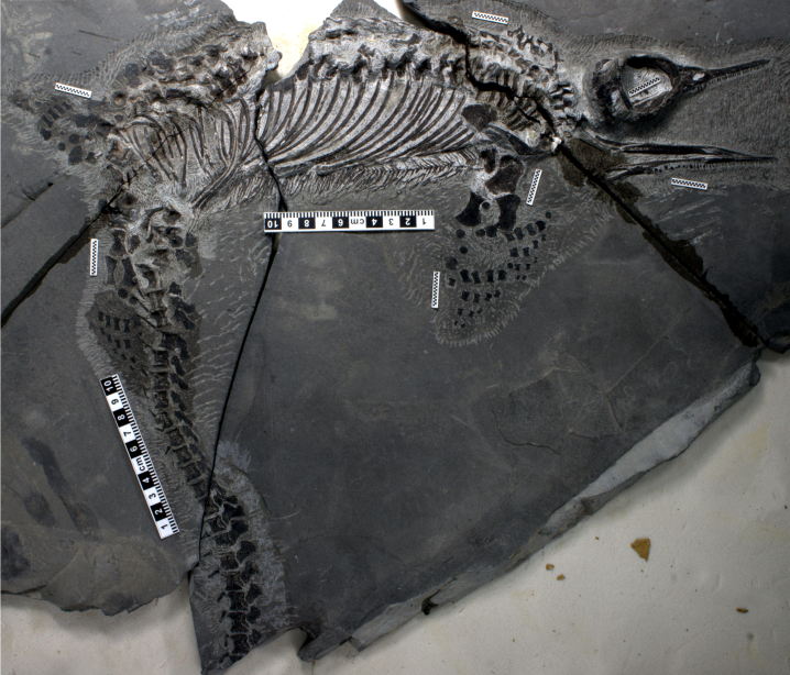 Chaohusaurus specimen AGM CHS-5, a nearly complete skeleton that is almost as large as AGM I-1. Large scale bars are 10 cm, and short bars 2 cm.